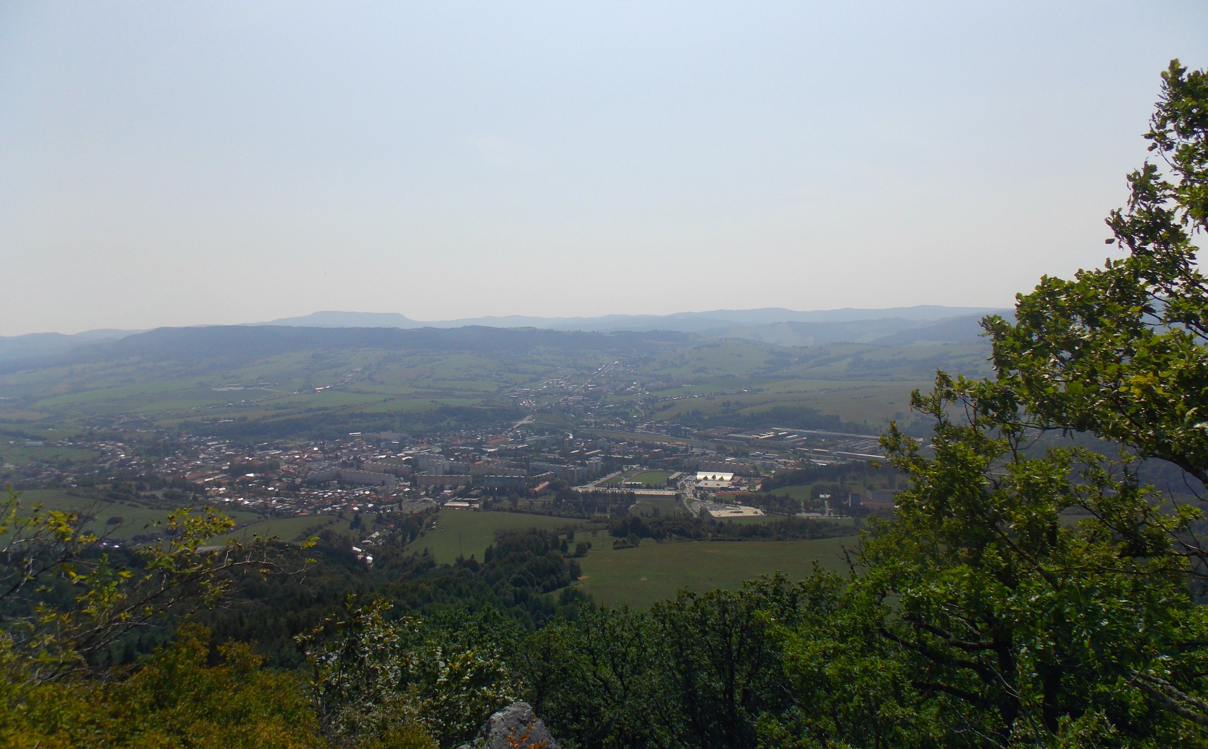 Výhľad na mesto Brezno a Horehronie z Breznianskej skalky